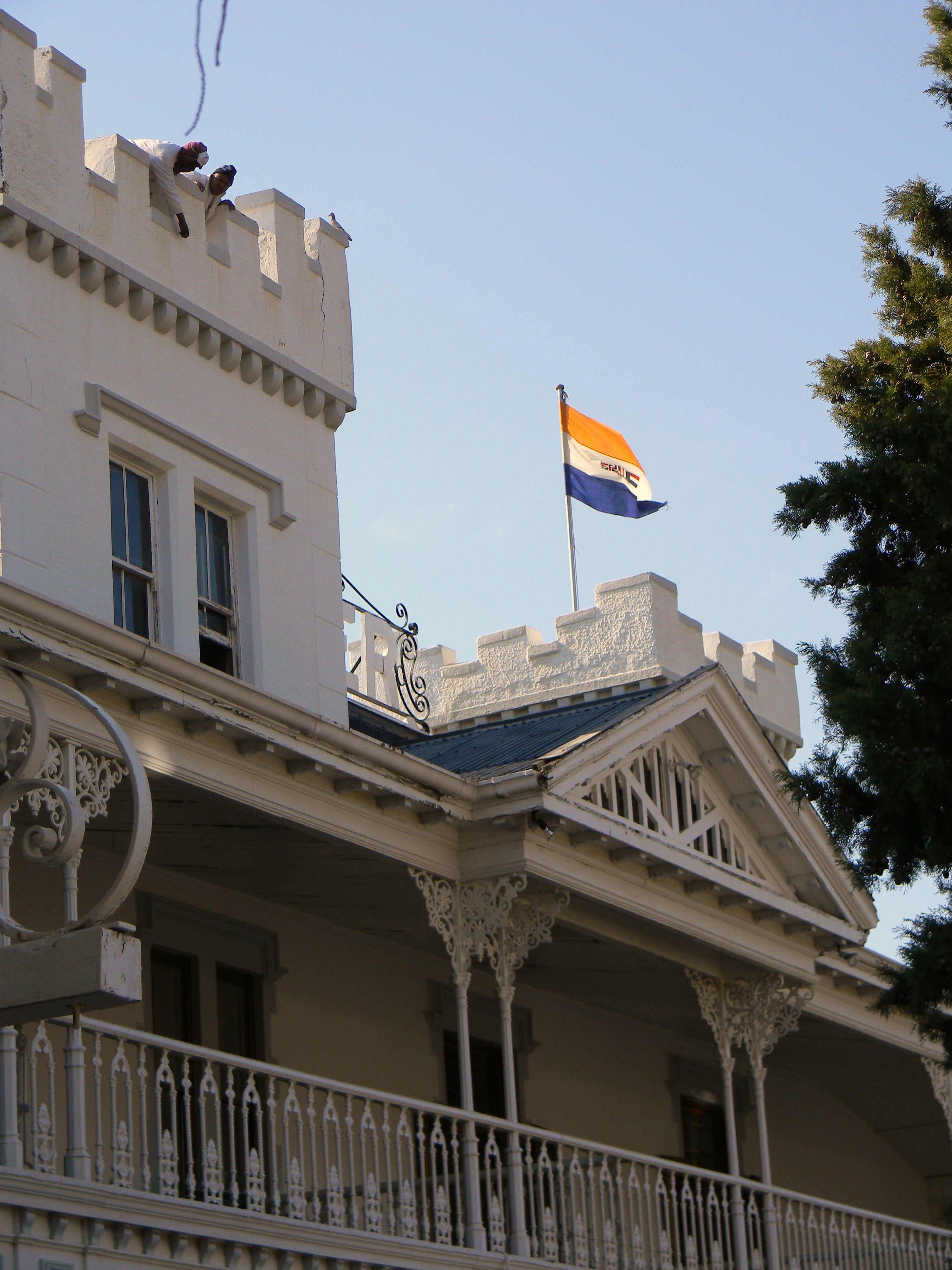 The flag of Apartheid-era South Africa flying at the Lord Milner Hotel in Matjiesfontein, Western Cape in 2009. The flag has since been replaced with the flag of the UK. This media shows a South African Protected Site with SAHRA file reference 9/2/058/0001See also: External entry in South African Heritage Resource Agency database.